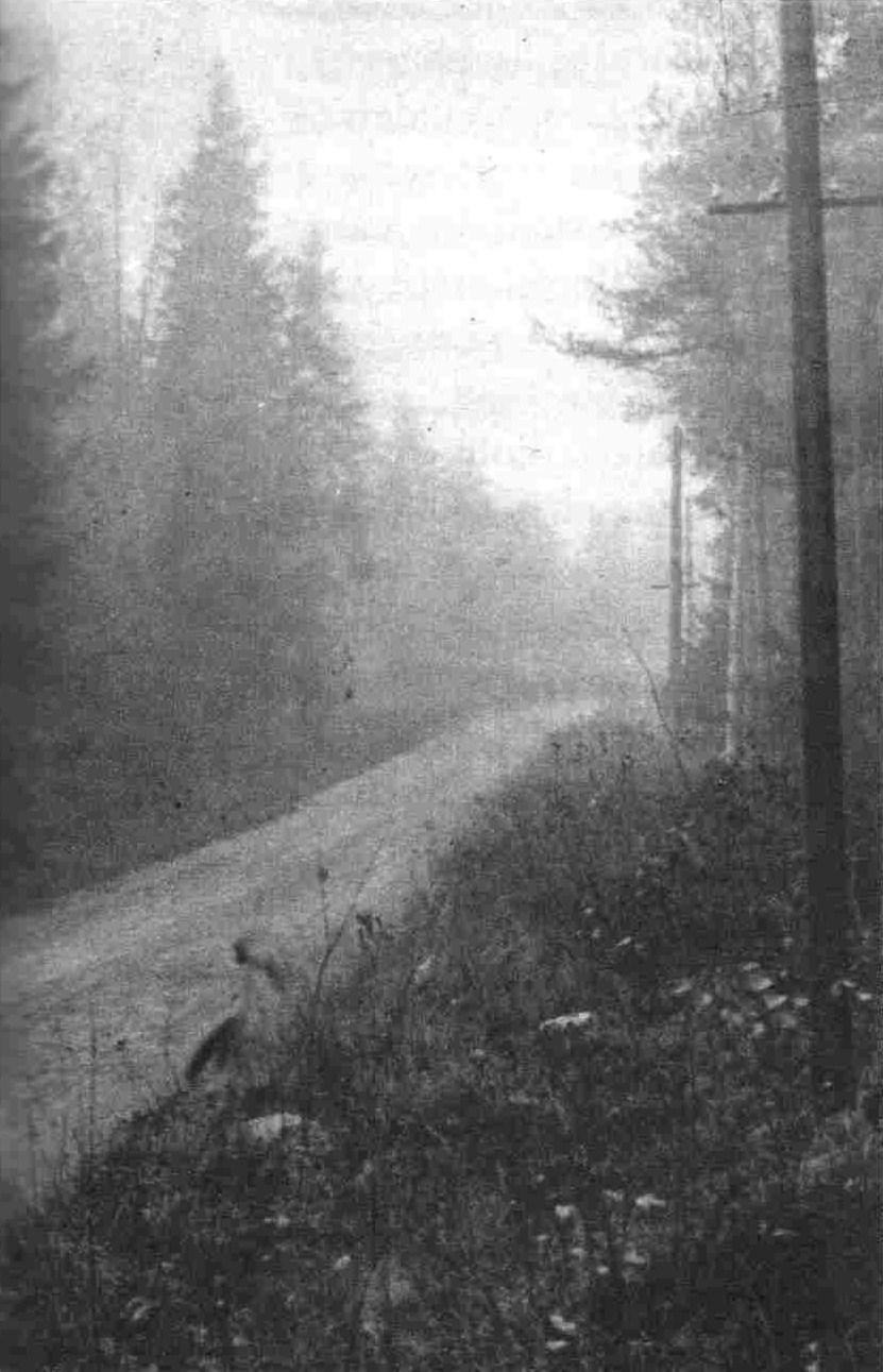 Wooded road at Kulosaari, Helsinki in 1930. From this road former president Kaarlo Juho Ståhlberg and his wife Ester Ståhlberg were kidnapped on 14 October 1930.